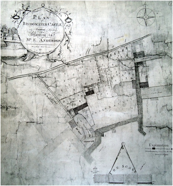 It is a plan measuring roughly 18 inches square. It is dated 1777